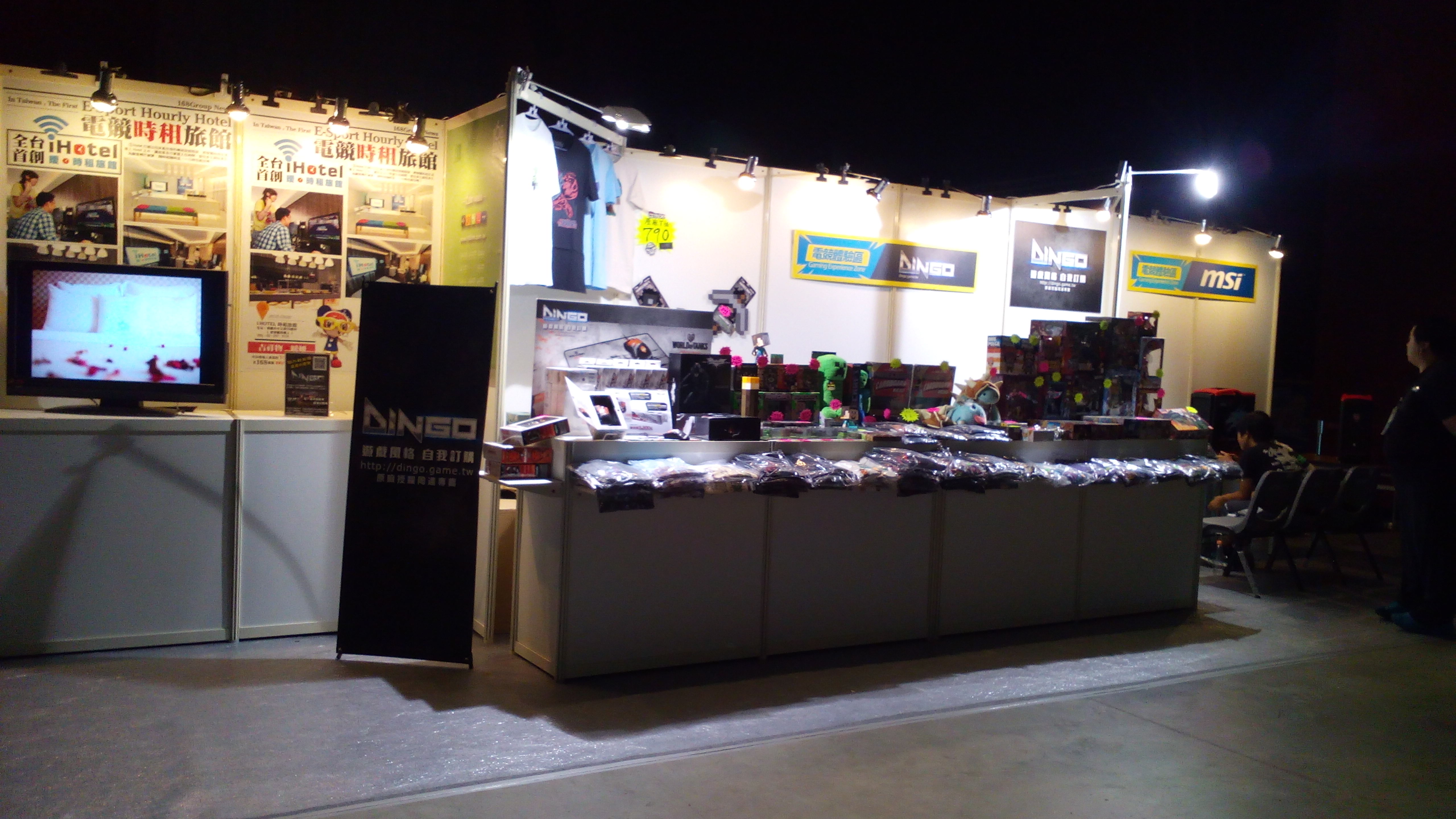 2014 Taoyuan International ACGT Fair - E-Games Area.